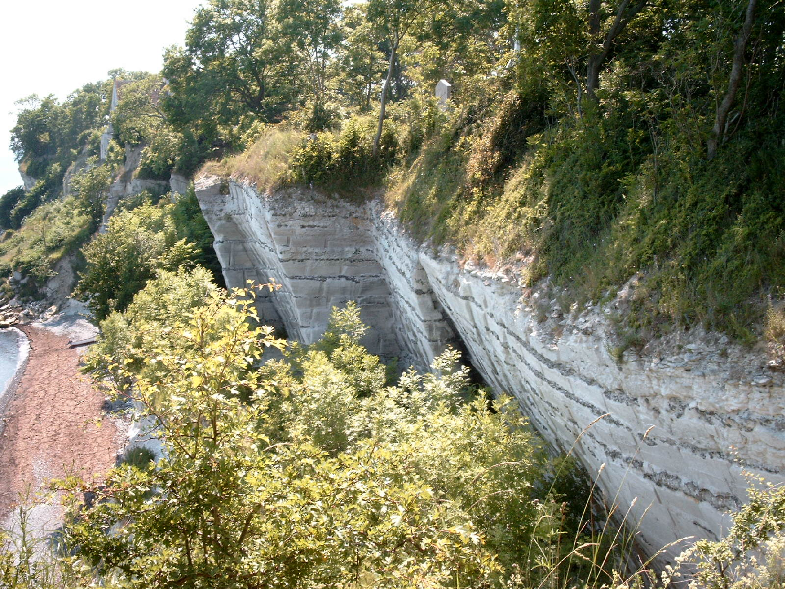 A view of Stevns' Cliffs (Stevns klint), Denmark. July 2005. Photographer: Dan Simon